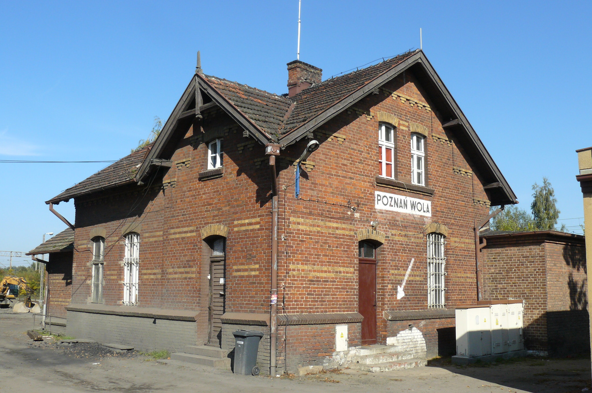 Train station - Poznan Wola.